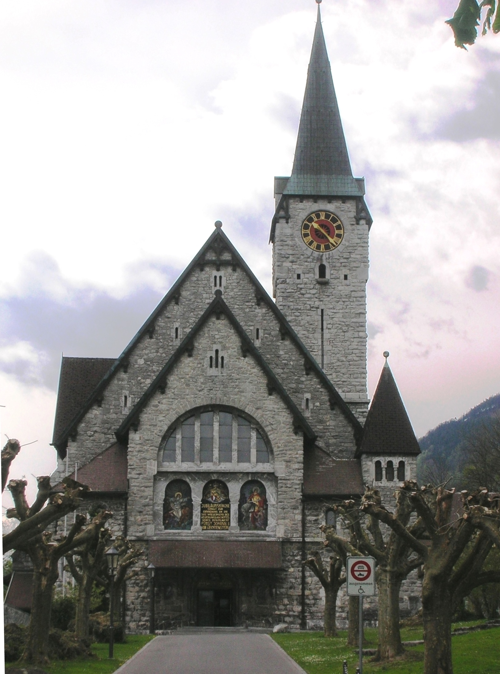 Parish church St. Nicholas in Balzers, Liechtenstein